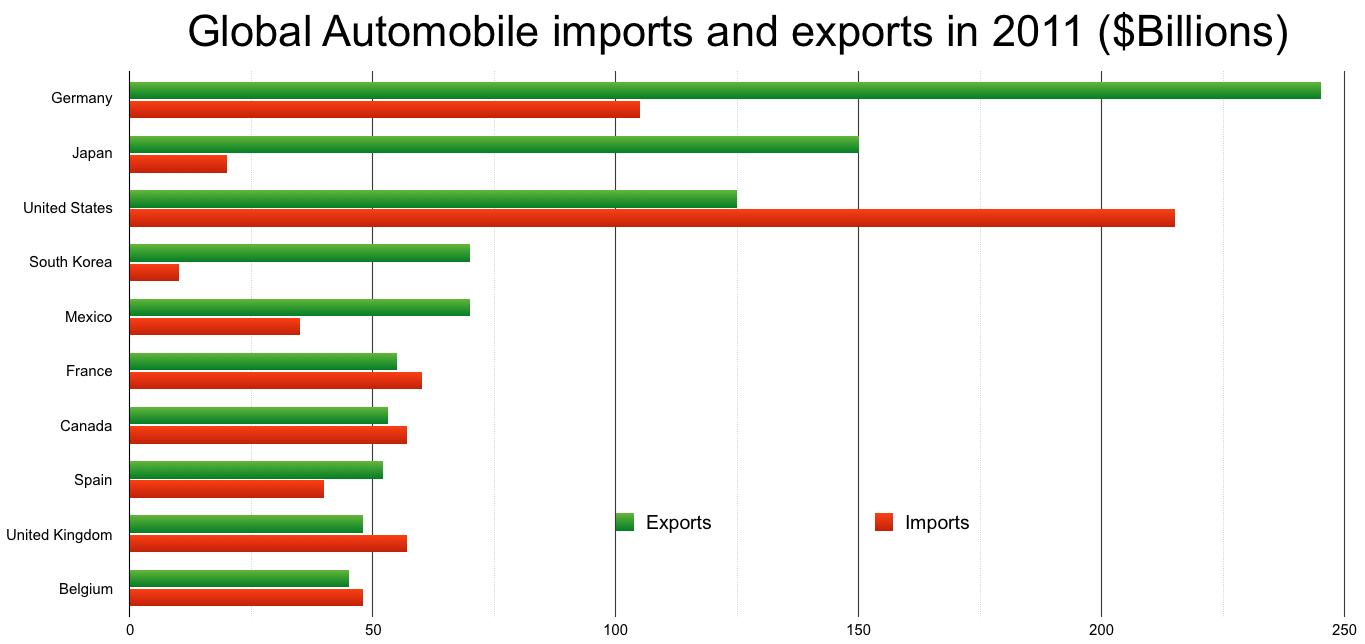 Global_imports_and_exports_of_cars 2011